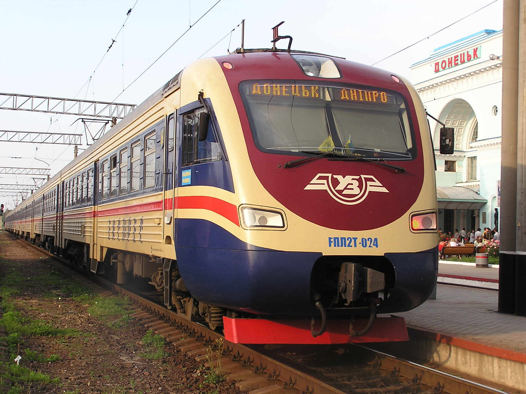 Locomotive EPL2T on train station in Donetsk.